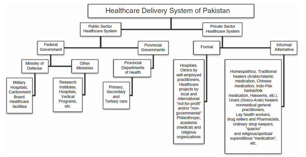 Healthcare Delivery System of Pakistan, proposed by Javed and Liu (2018).